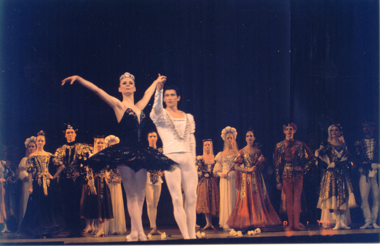 Image Saint Petersburg,Russia- Marinskij Theatre